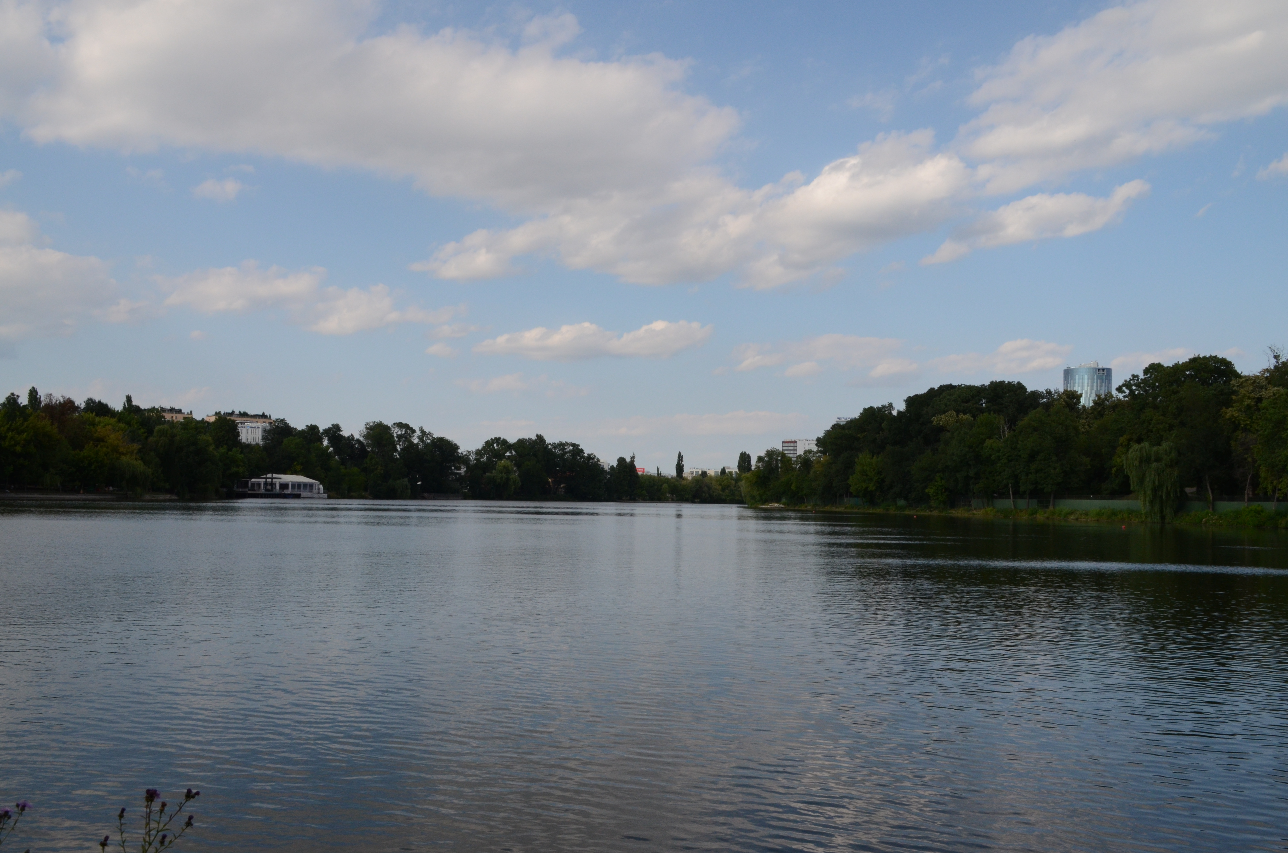 Floreasca Lake, Bucharest (view from Bordei Park)